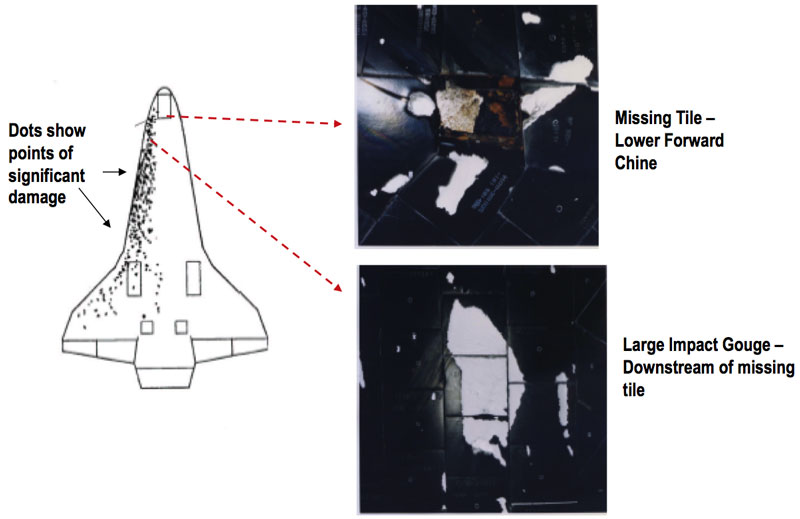 Heat shield damage on Space Shuttle Atlantis after STS-27